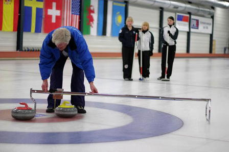 Curling metering by sliding micrometric.